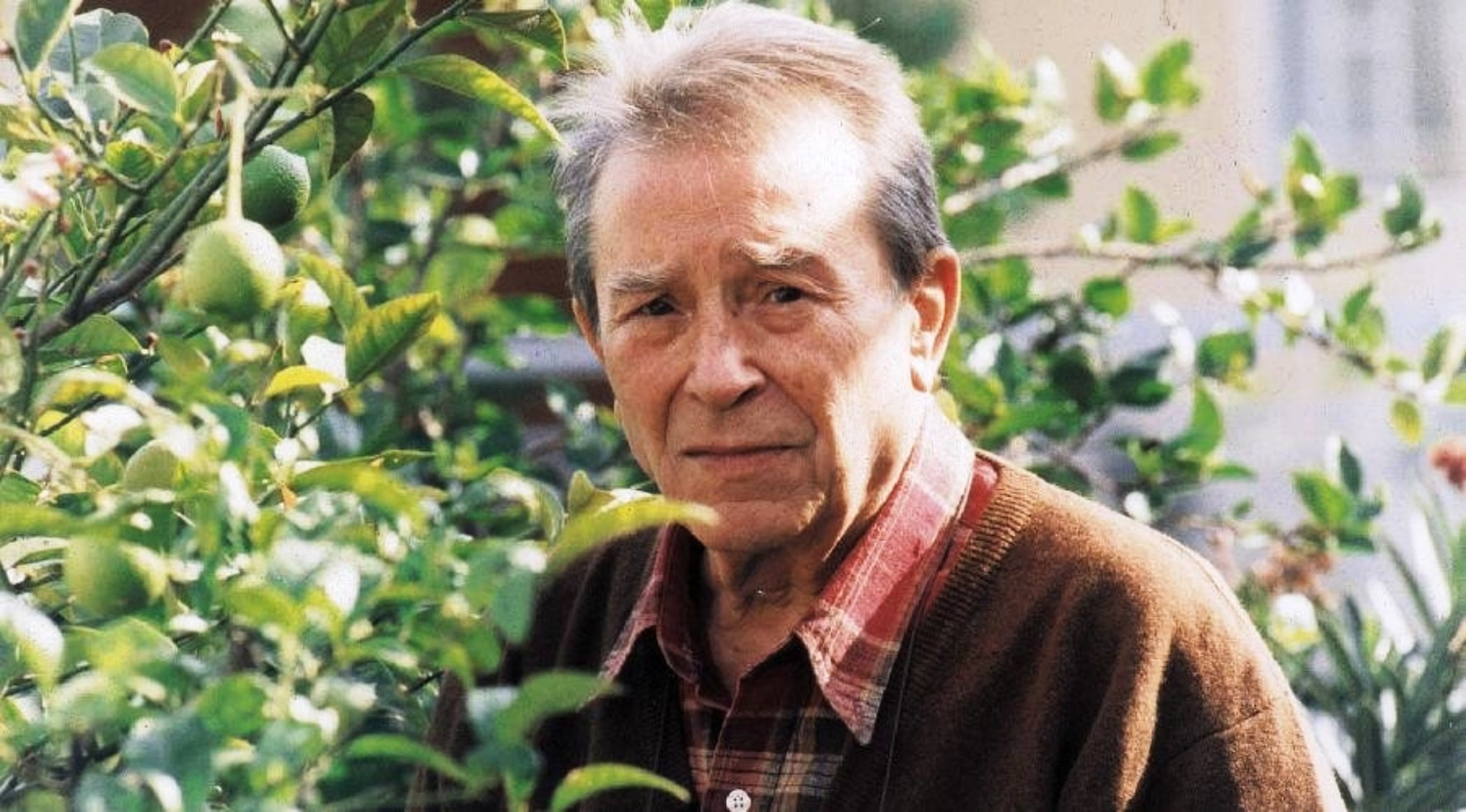 Iakovos Kambanelis (or Kampanellis) poet, playwright, screenwriter, lyricist, and novelist